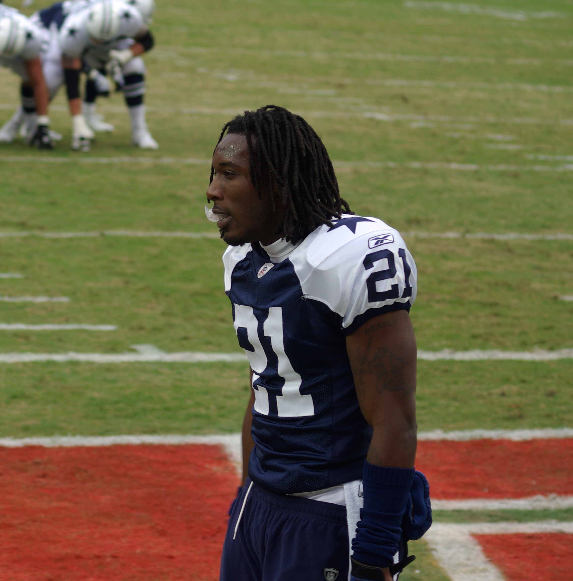 Mike Jenkins - 2009 - Dallas Cowboys vs. Kansas City Chiefs